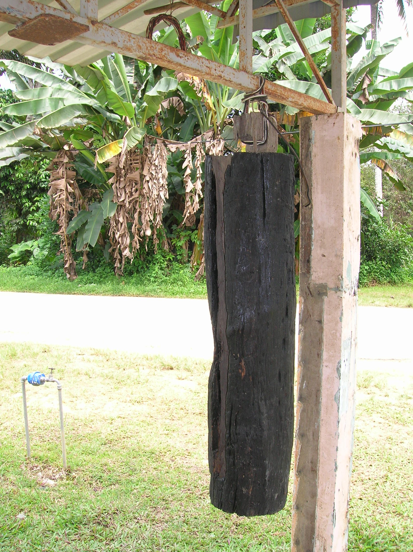 Drum that hangs down in the mosque garaj Ubudiah, Ulu Dong, Pahang.